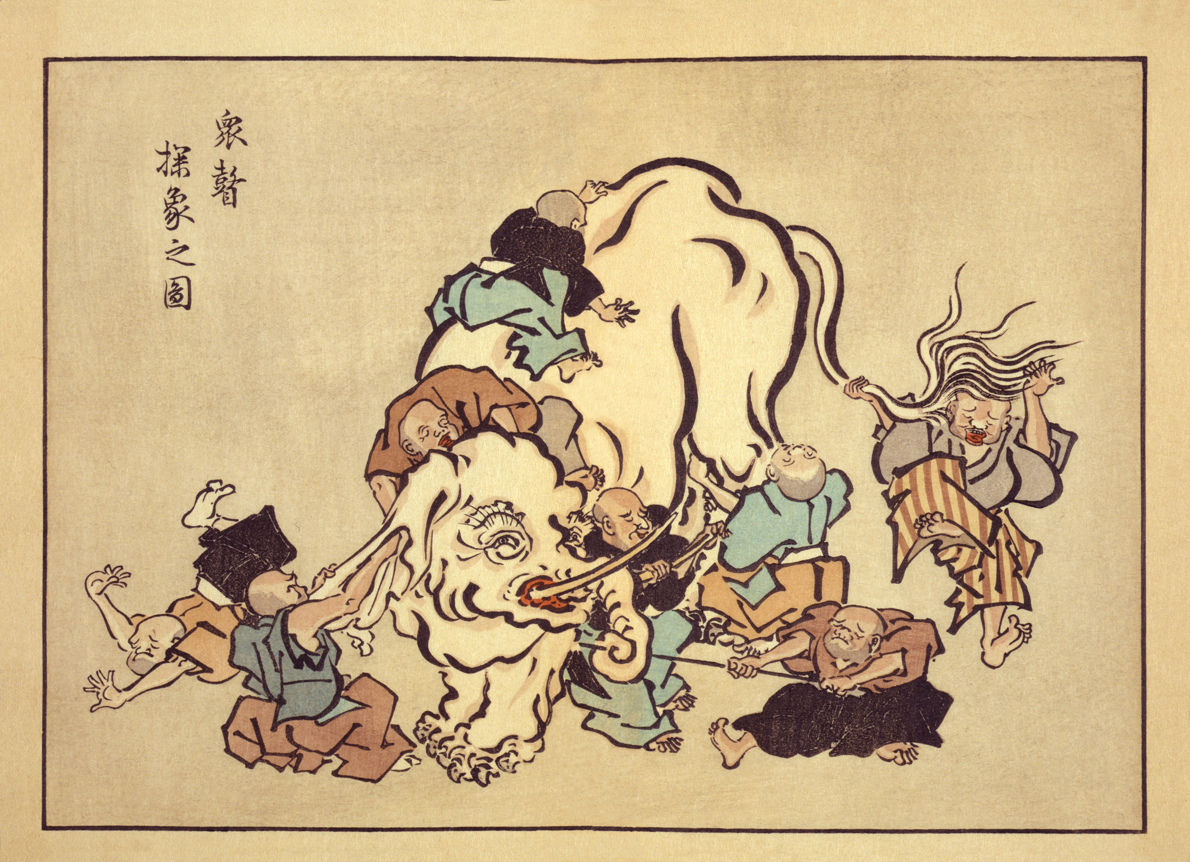 "Blind monks examining an elephant" by Itcho Hanabusa. LOC description: Ukiyo-e print illustration from Buddhist parable showing blind monks examining an elephant. Each man reaches a different conclusion based on which part of the elephant he has examined. 1 print : woodcut, color.